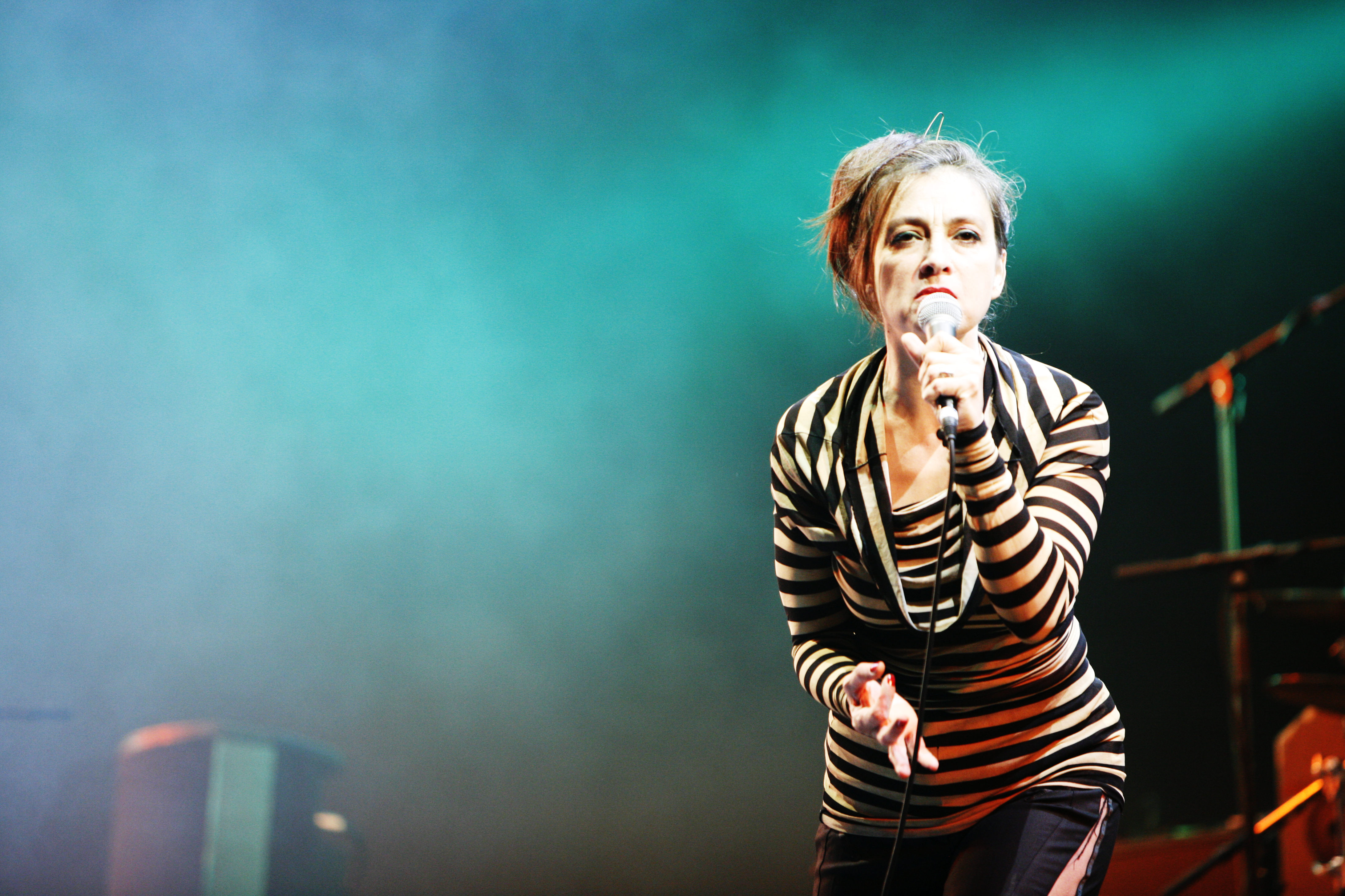 Les Rita Mitsouko at the Eurockéennes of 2007